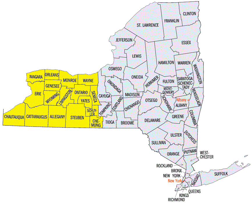 United States Western District of New York counties.